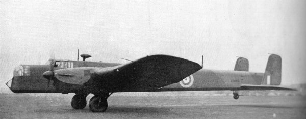 Armstrong Whitworth Whitley medium bomber.